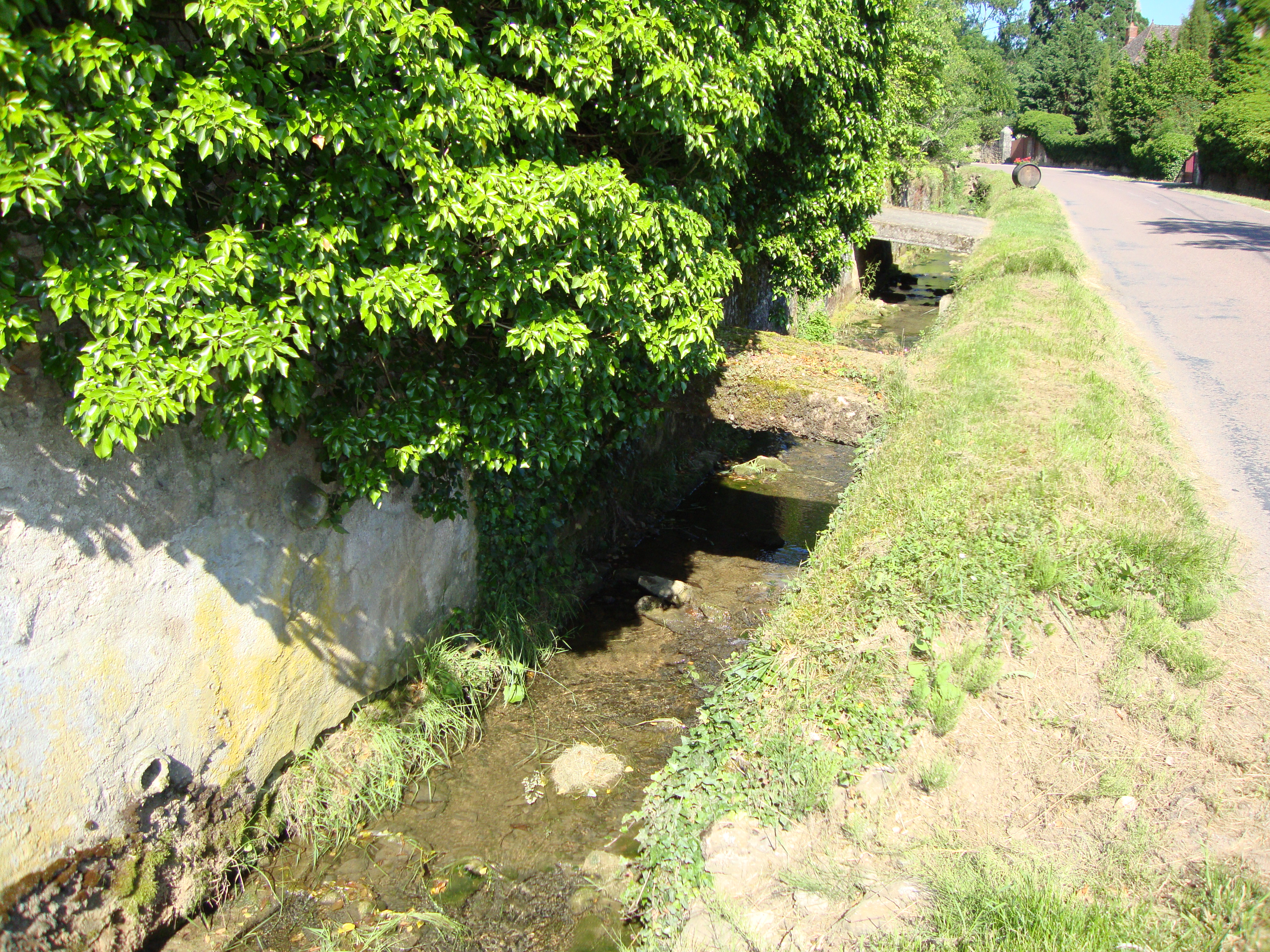 Jambles (Saône-et-Loire, Fr) Ruisseau de Jambles